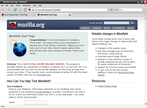 screen shot of Firefox 3.0